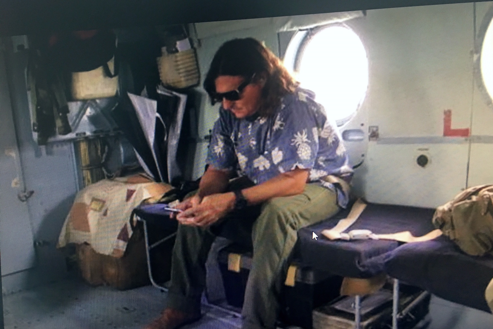 Richard Ragan on helo in Liberia